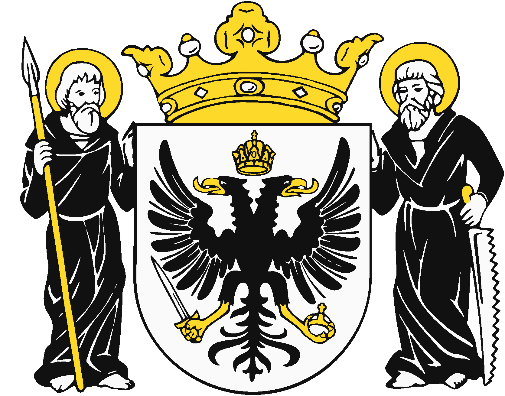 Coat of arms of Námestovo, Slovakia